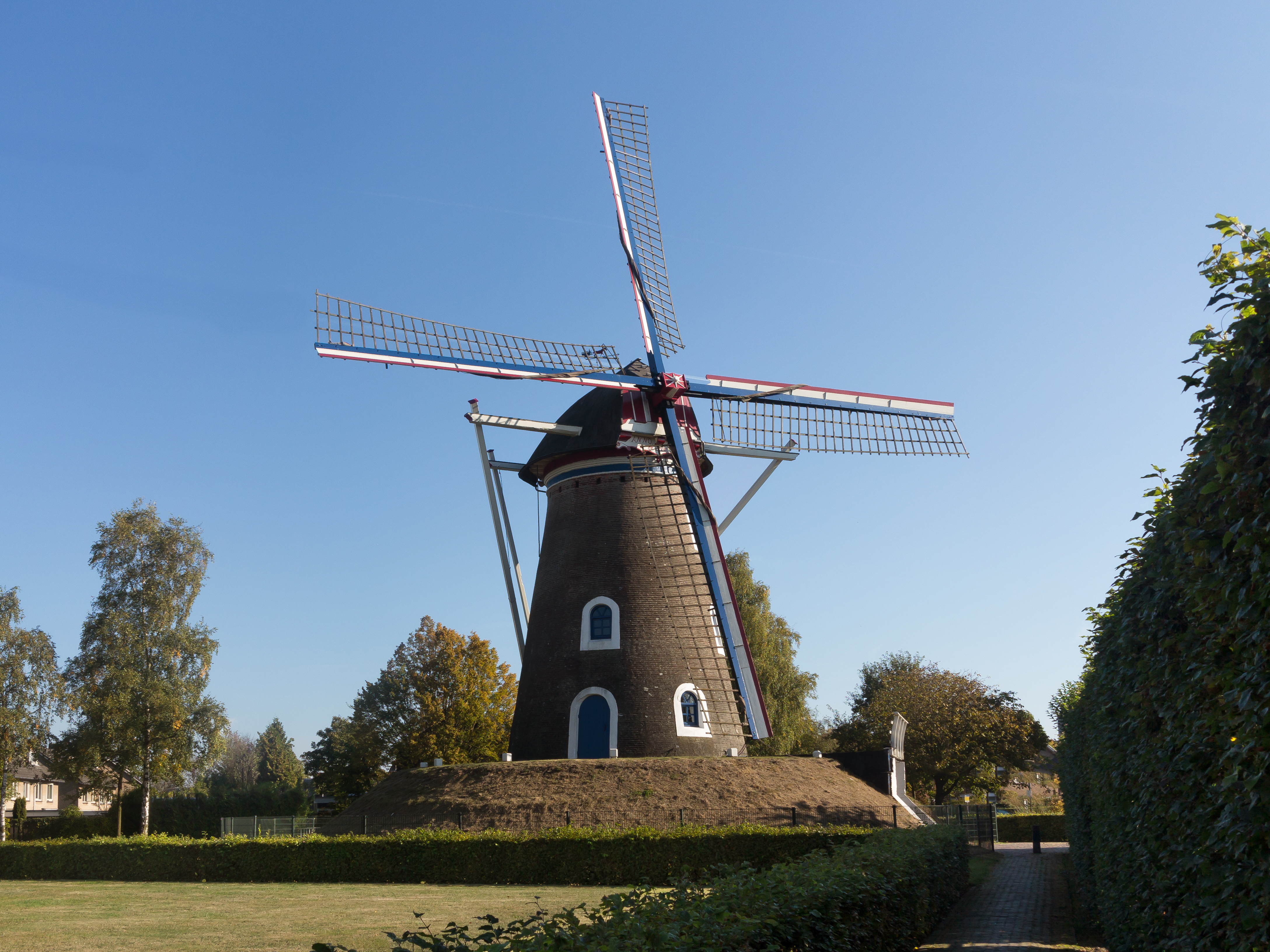 Lieshout, windmill: windmolen de Leest